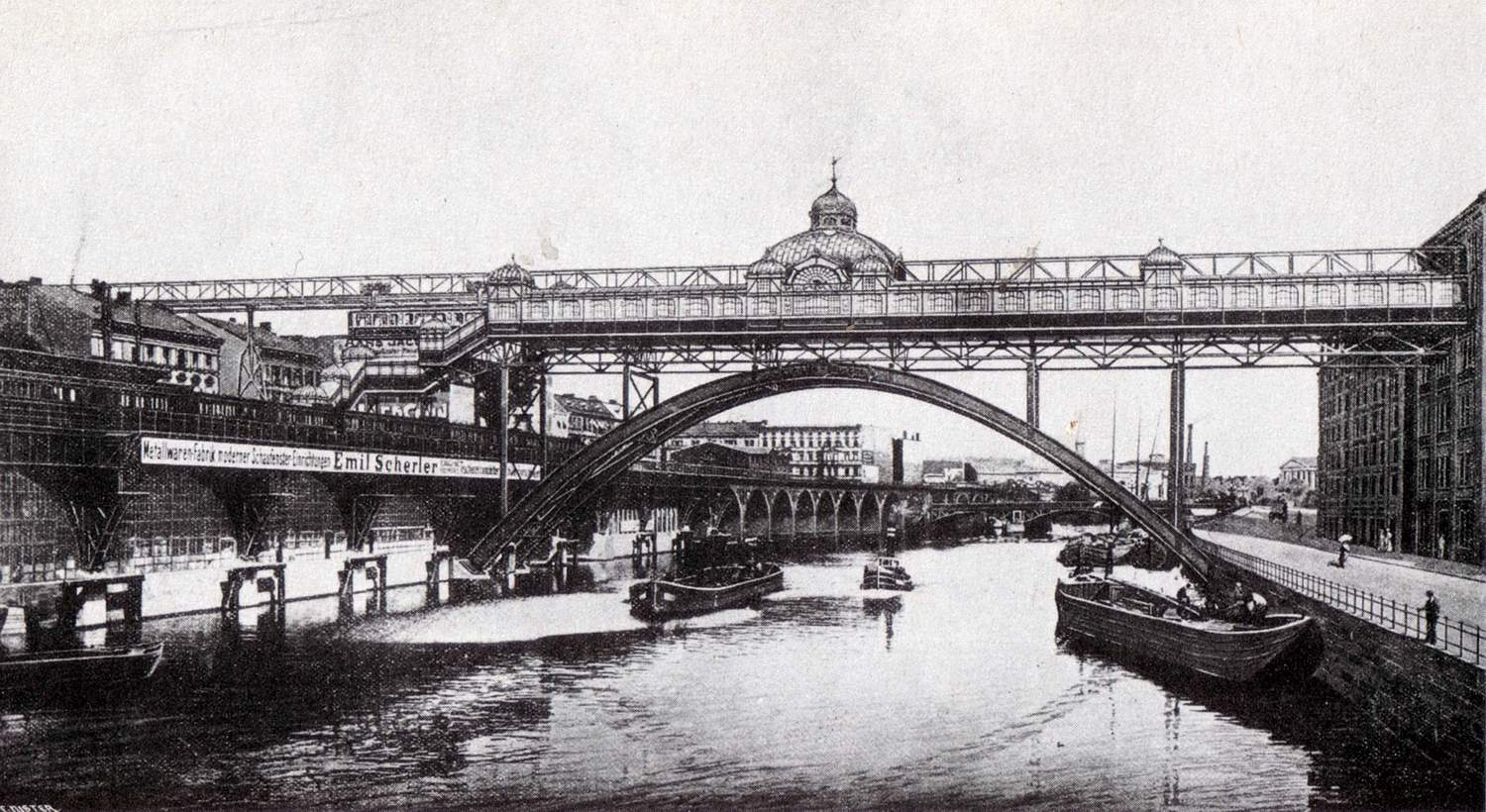 Draft for a elevated railwaystation Jannowitzbrücke in Berlin